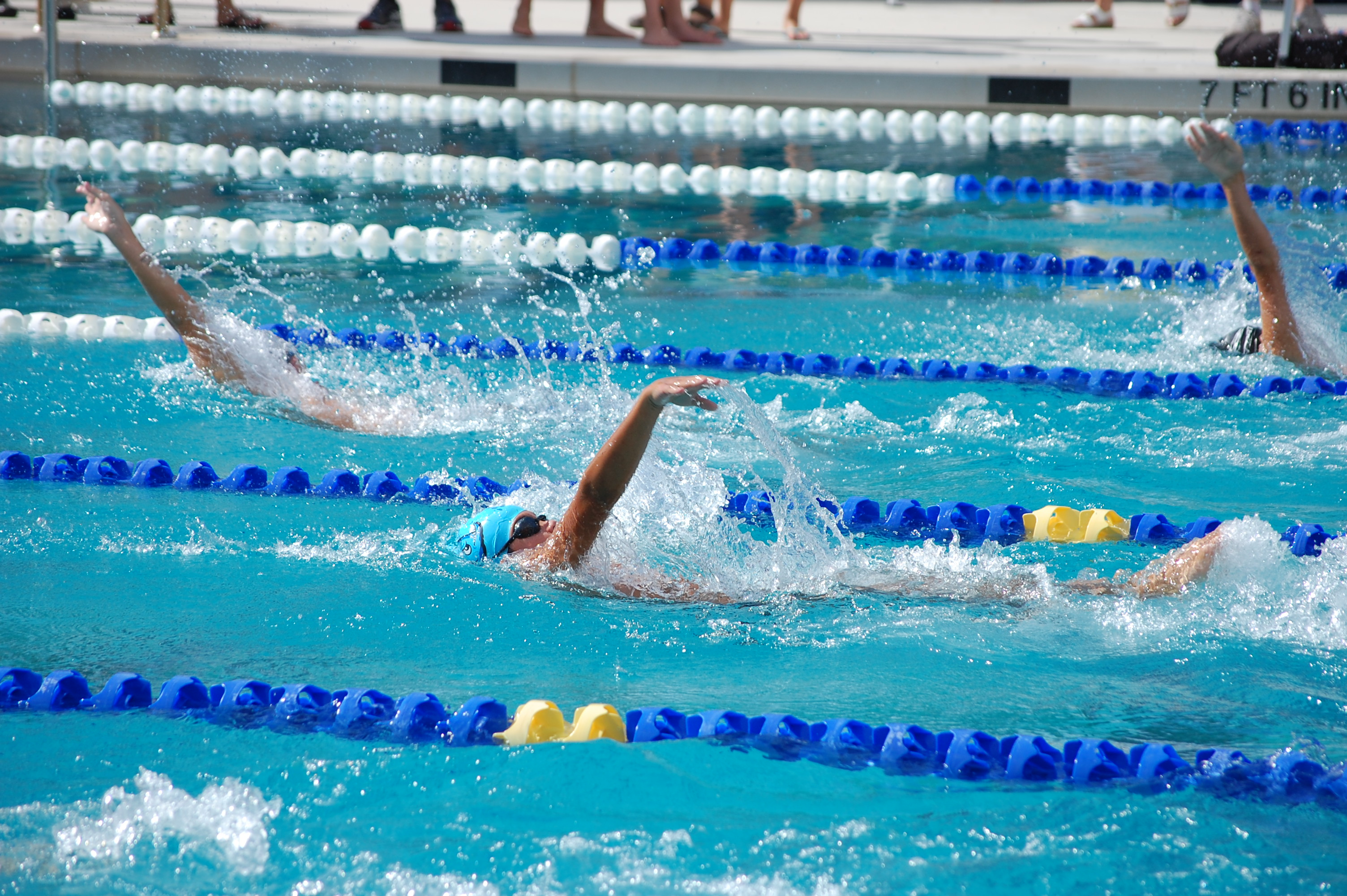 A picture showing amateur swimmers competing in a backstroke event at a local competition.